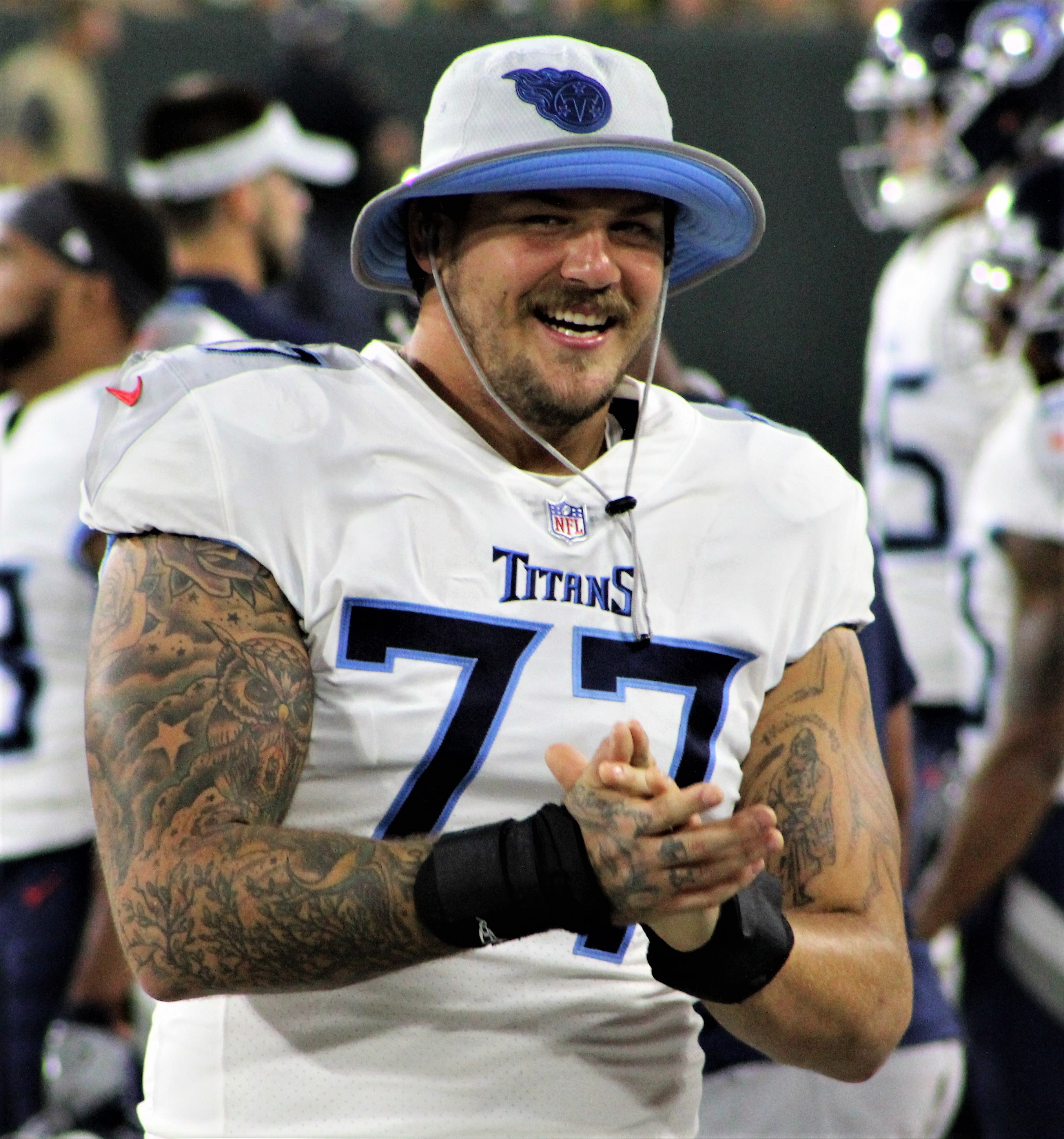 Taylor Lewan, Tennessee Titans at Green Bay Packers (Preseason), August 9, 2018